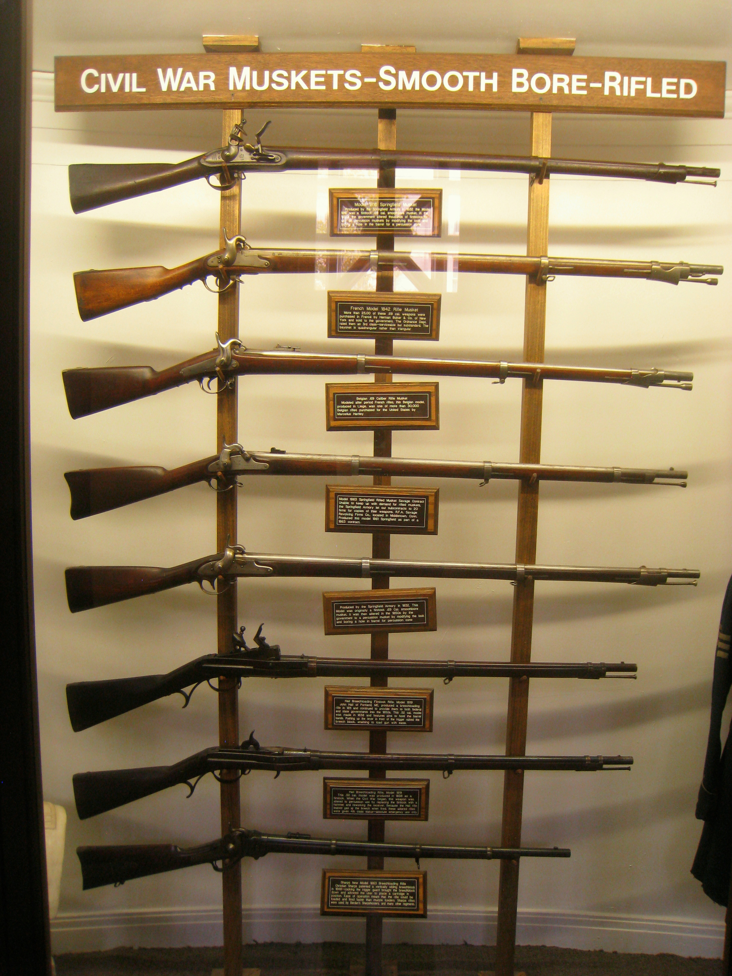 Interior view, Soldiers and Sailors National Military Museum and Memorial (formerly Allegheny County Soldiers' Memorial), Pittsburgh, Pennsylvania, USA.